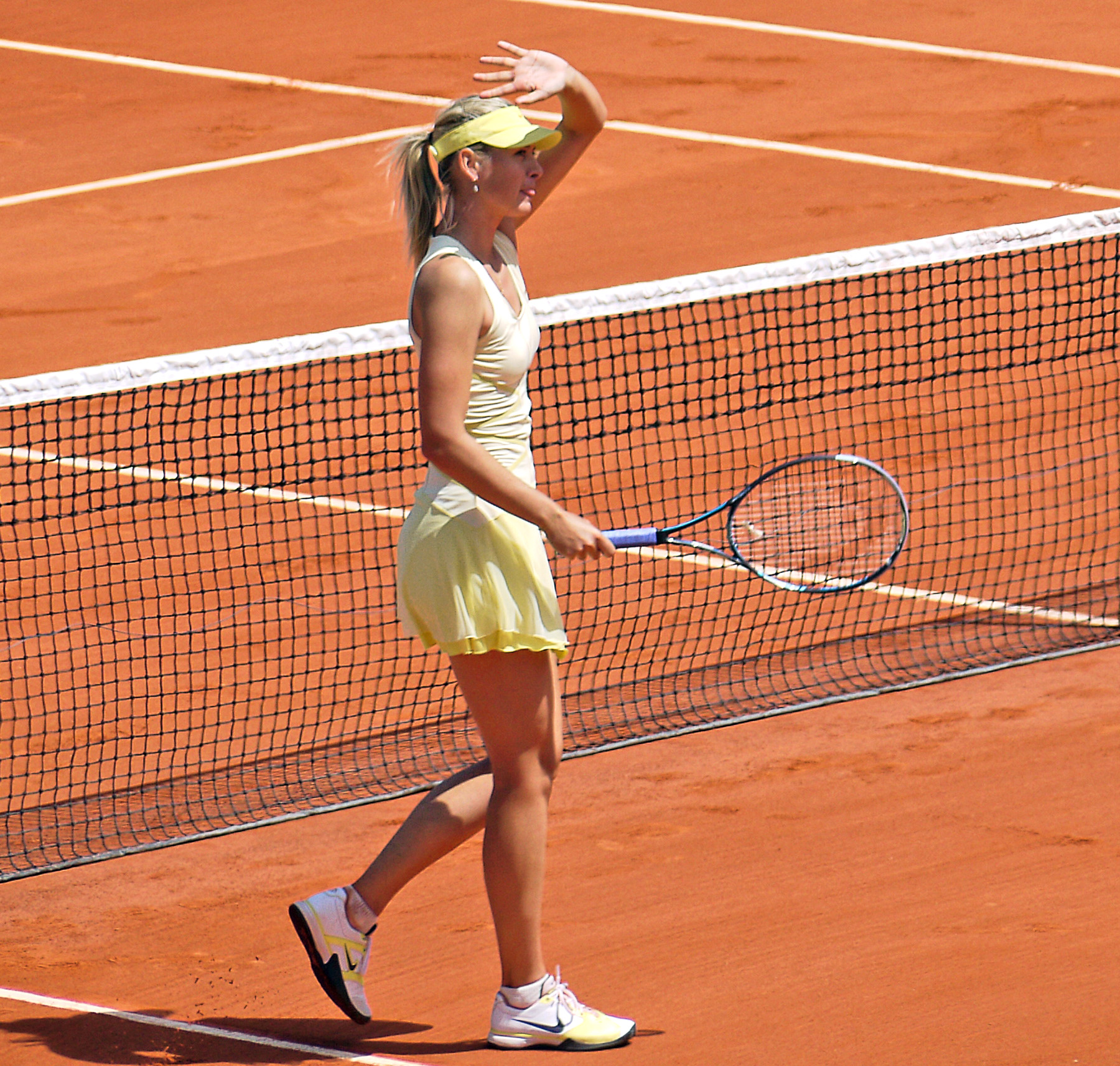 Sharapova at the end of her match with Mirjana Lucic waving to the crowd